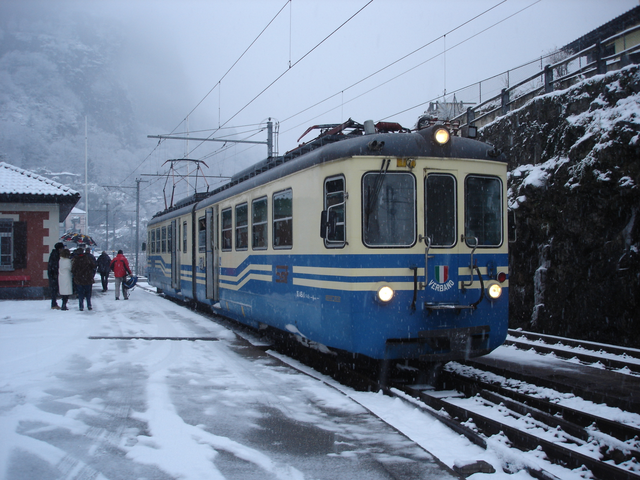 ABe 6/6 35 "Verbano", owned by SSIF, during a stop at Ponte Brolla station as it was operating the D 63 train from Domodossola to Locarno.